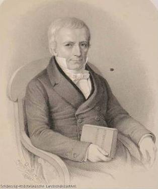 Portrait of the astronomer Heinrich Christian Schumacher. Lithography. Graphic: 26,4 x 21,1 cm (oval) / Sheet: 51,4 x 36 cm